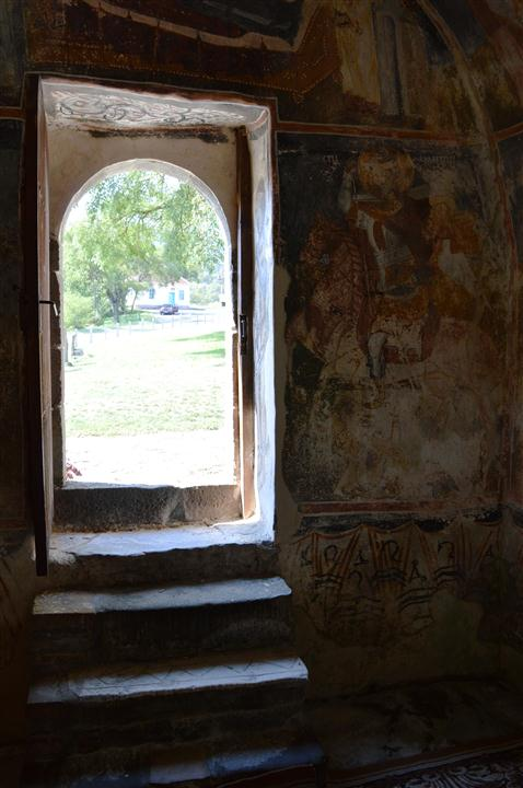 Raska Municipality - Church of St. Petka, Trnava